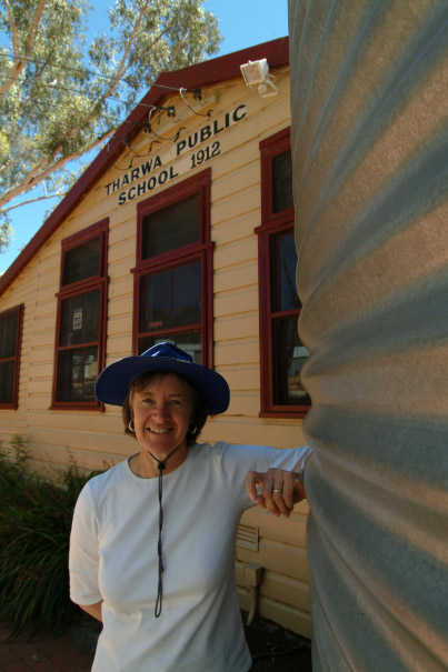 The Tharwa Primary School was located in the small village of Tharwa, Australian Capital Territory. It was built in 1898 and opened in 1899. However, 2006 may be its last year of operation due to a radical proposal to re-organise the allocation of educational resources in the ACT.